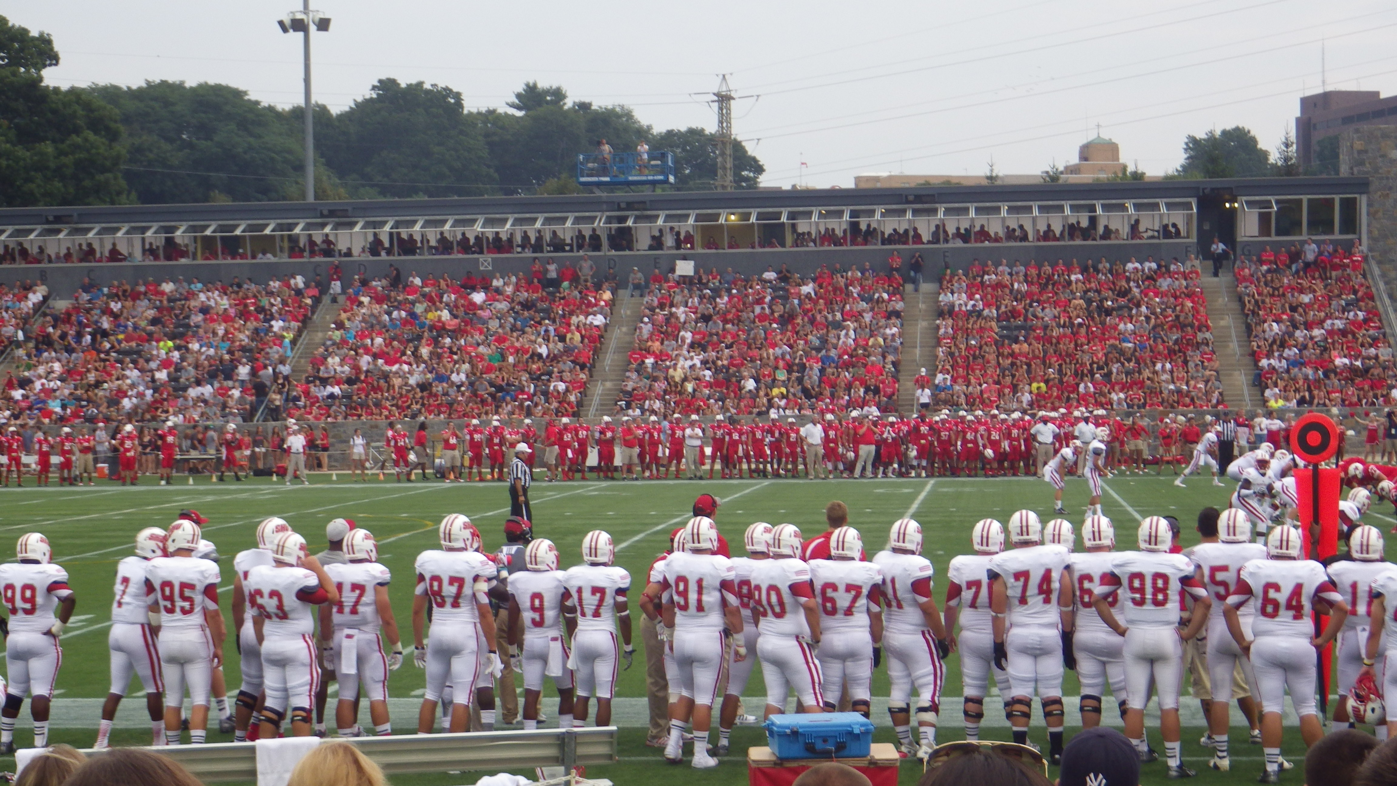 Marist vs Sacred Heart 8-31-13 sold out